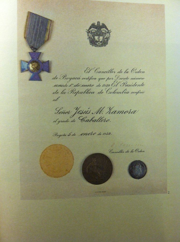 Caballero, Órden de Boyacá